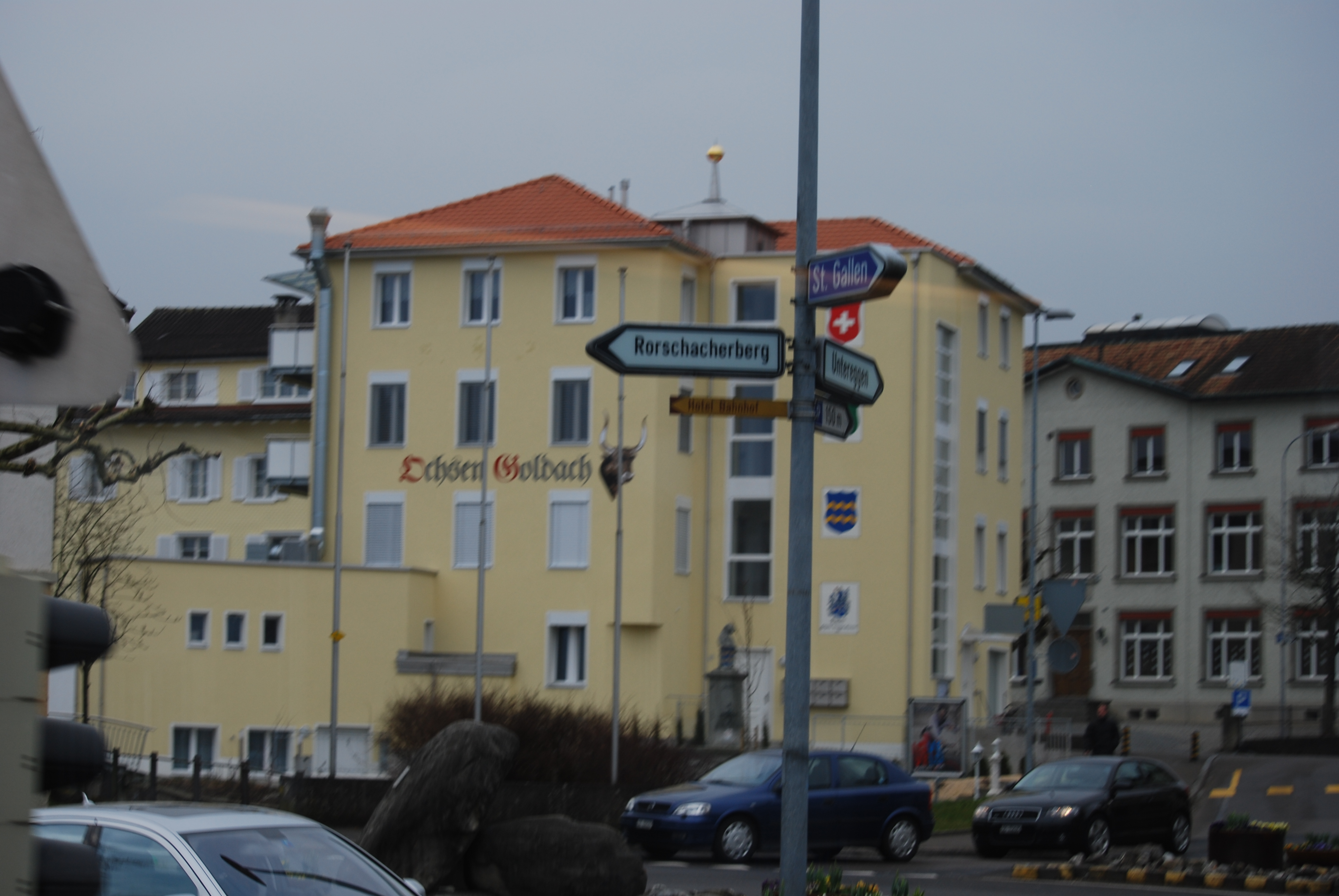 Goldach, canton of St. Gallen, SwitzerlandEsperanto: Goldach, Kantono Sankt-Galo, Svislando